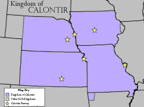 Map of the Society for Creative Anachronism (SCA) Kingdom of Calontir. Original image created March 6, 2006 using public domain US map ( with information from Calontir's website (